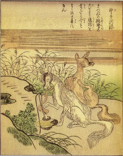 Nogitsune (野狐) from the Ehon Hyaku monogatari (絵本百物語)